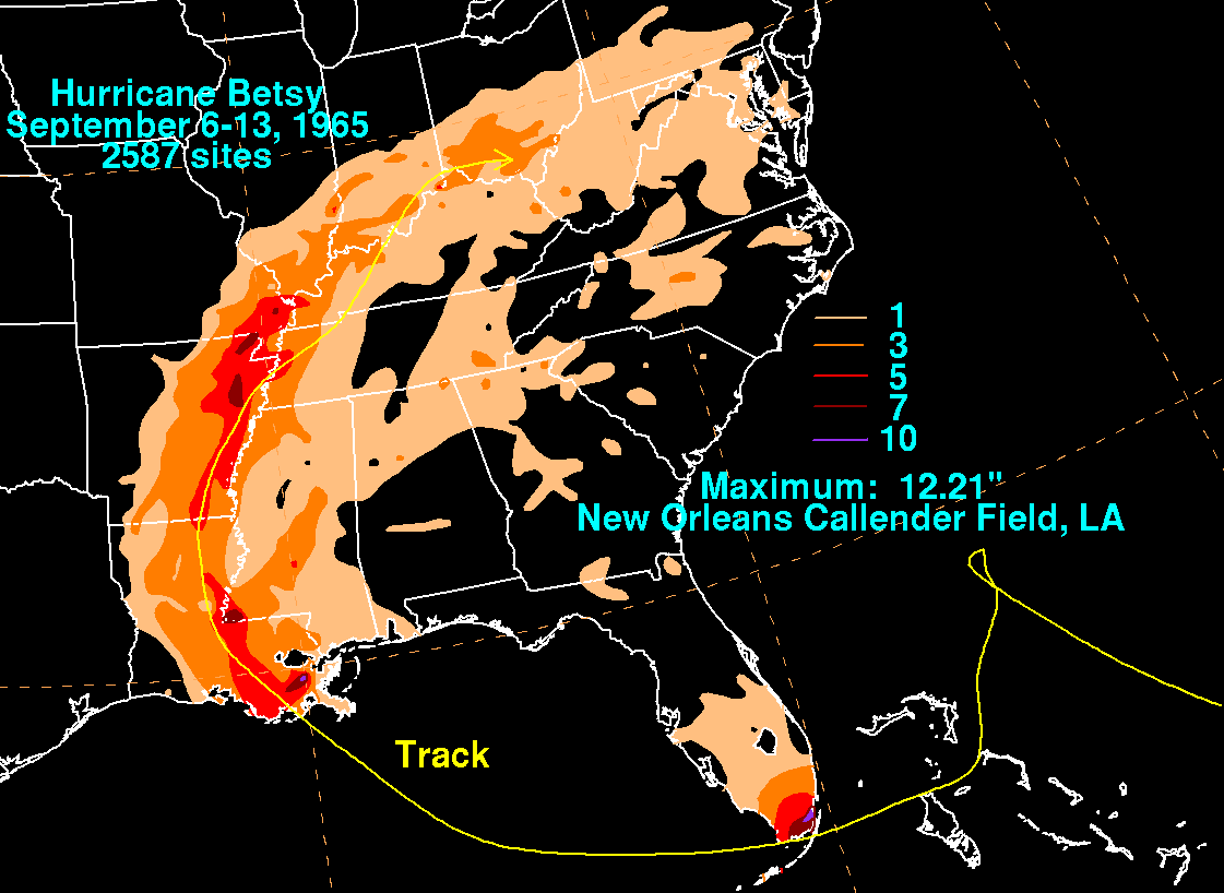 Storm total rainfall map of Hurricane Betsy during September 1965.